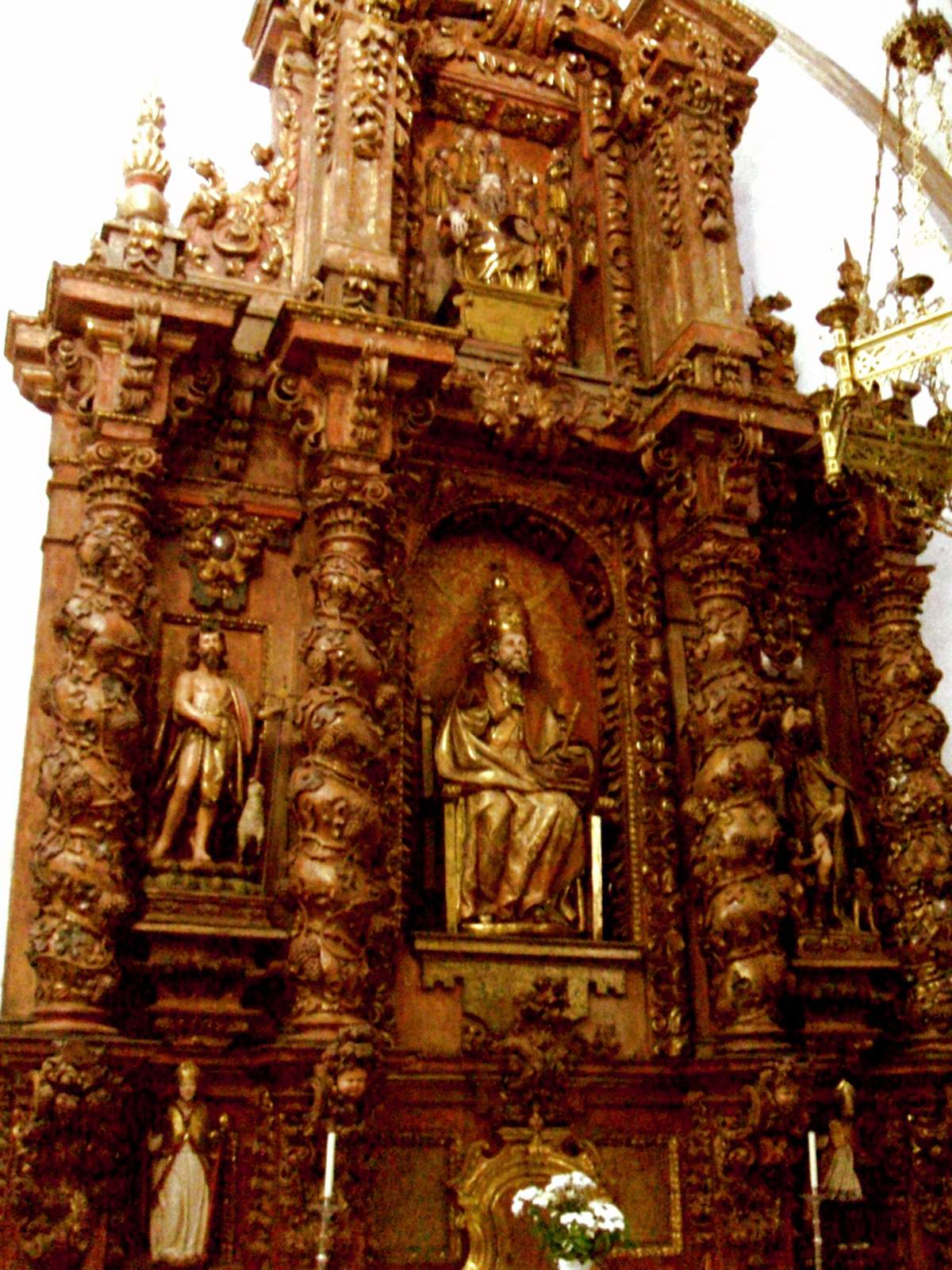 Retablo de San Pedro (s-XVII), en la Basílica de Santa María de la Asunción, Lequeitio (Vizcaya, Euskadi, España)